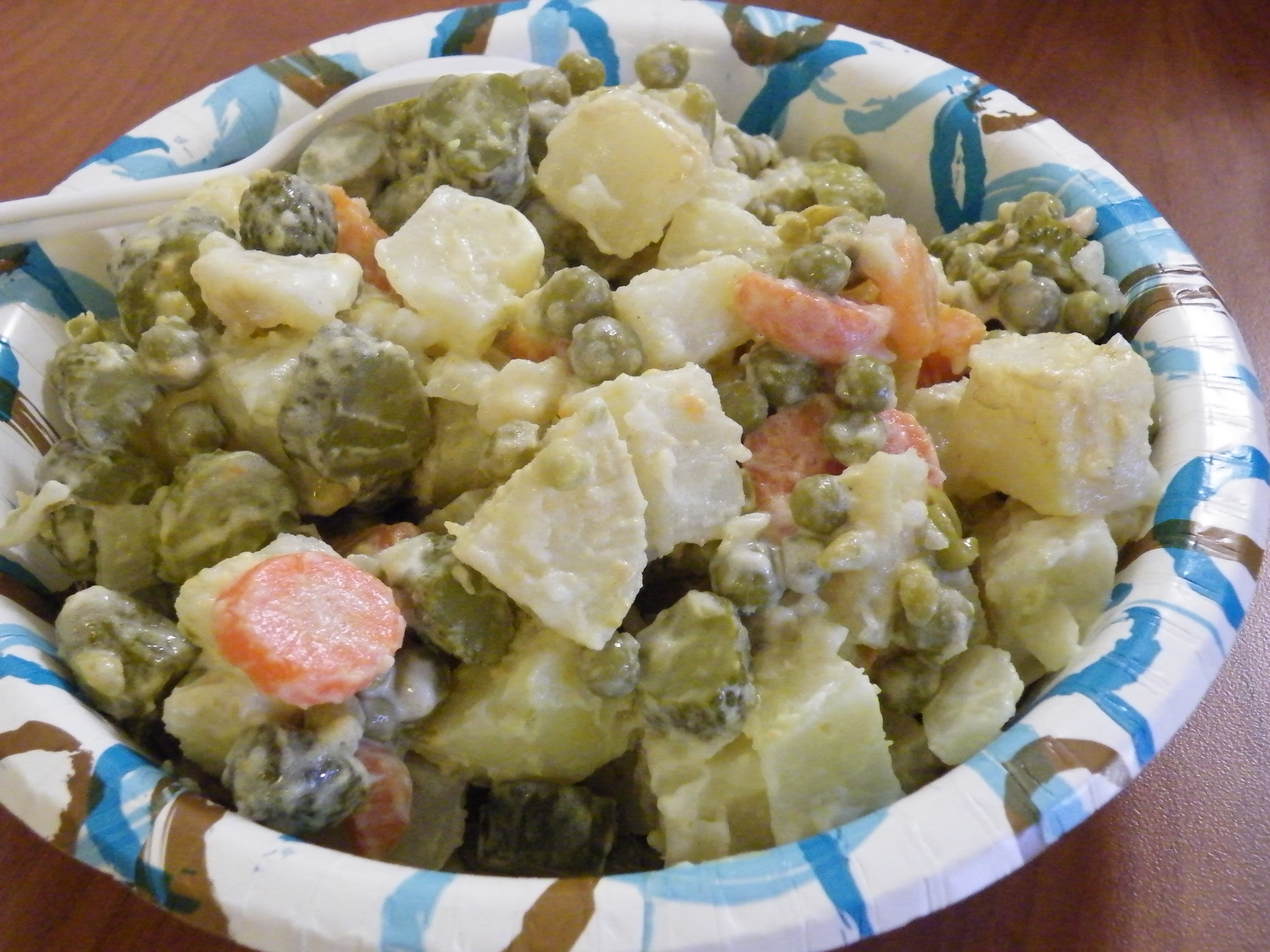 Potato salad